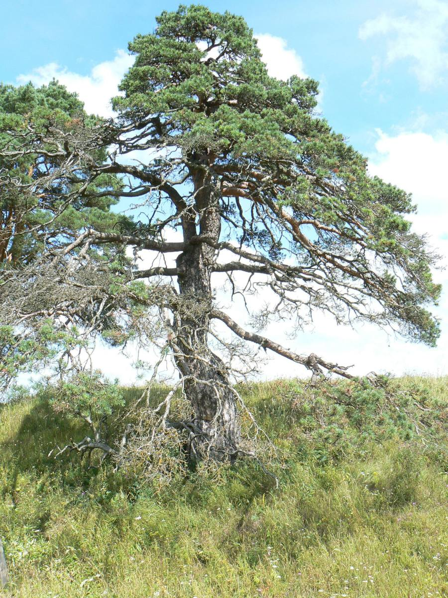 The pine-tree of Porkuni, Estonia